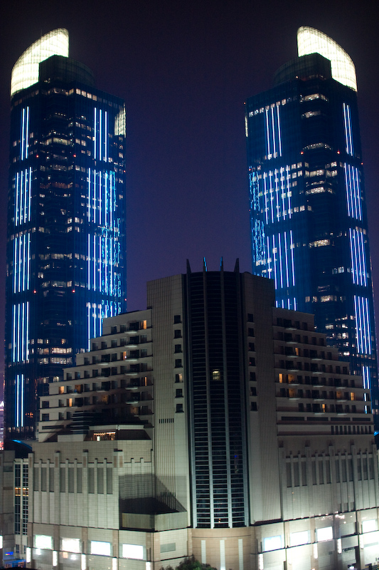 The Grand Gateway towers in Xujiahui area of Shanghai, at evening